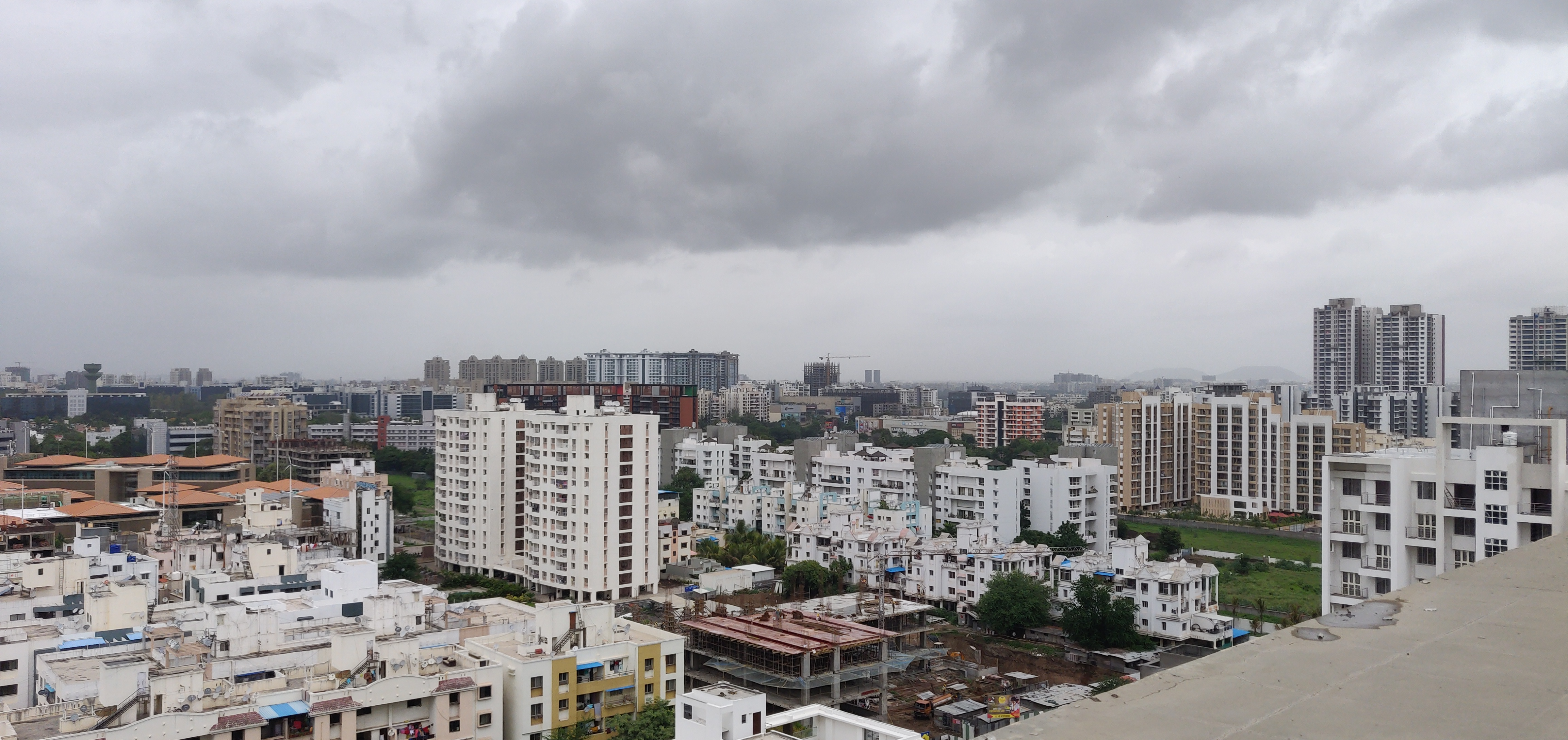 Hadapsar skyline of Pune. Once a village Hadapsar now boasts of IT Parks(Magarpatta and SP Infocity) and shopping malls.